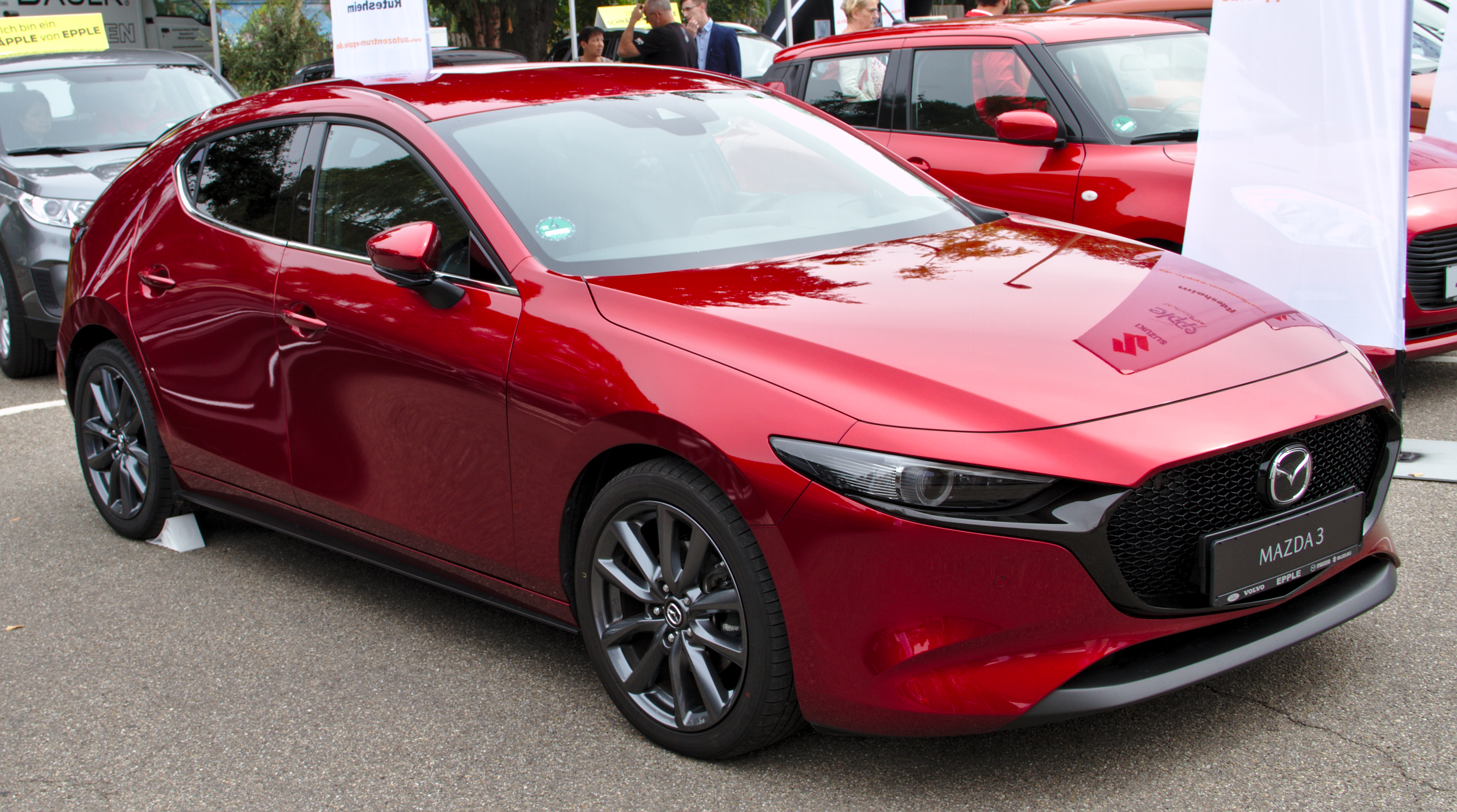 Mazda3_(BP) at Leonberger Autoschau 2019